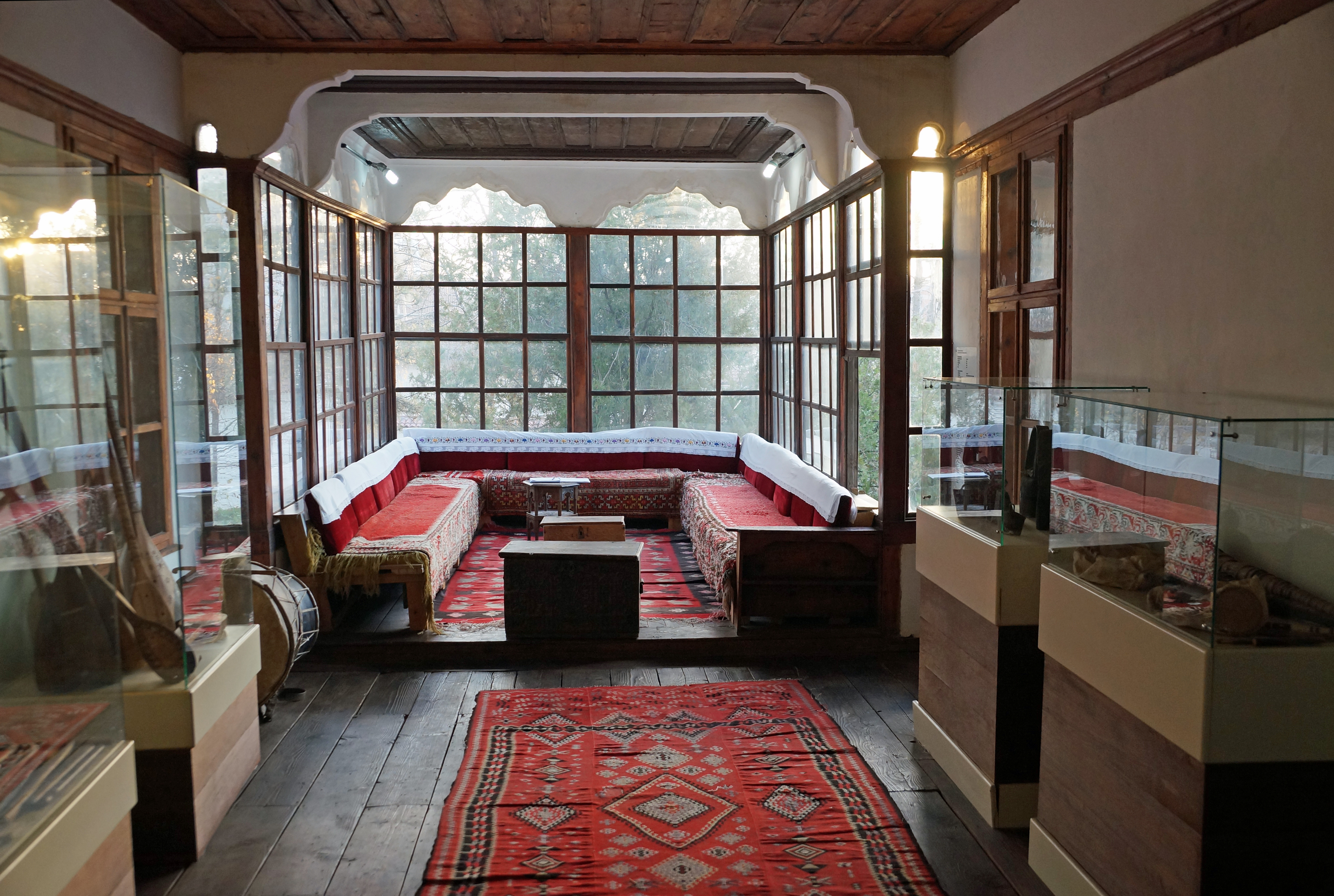 Ethnological Museum, Prishtina